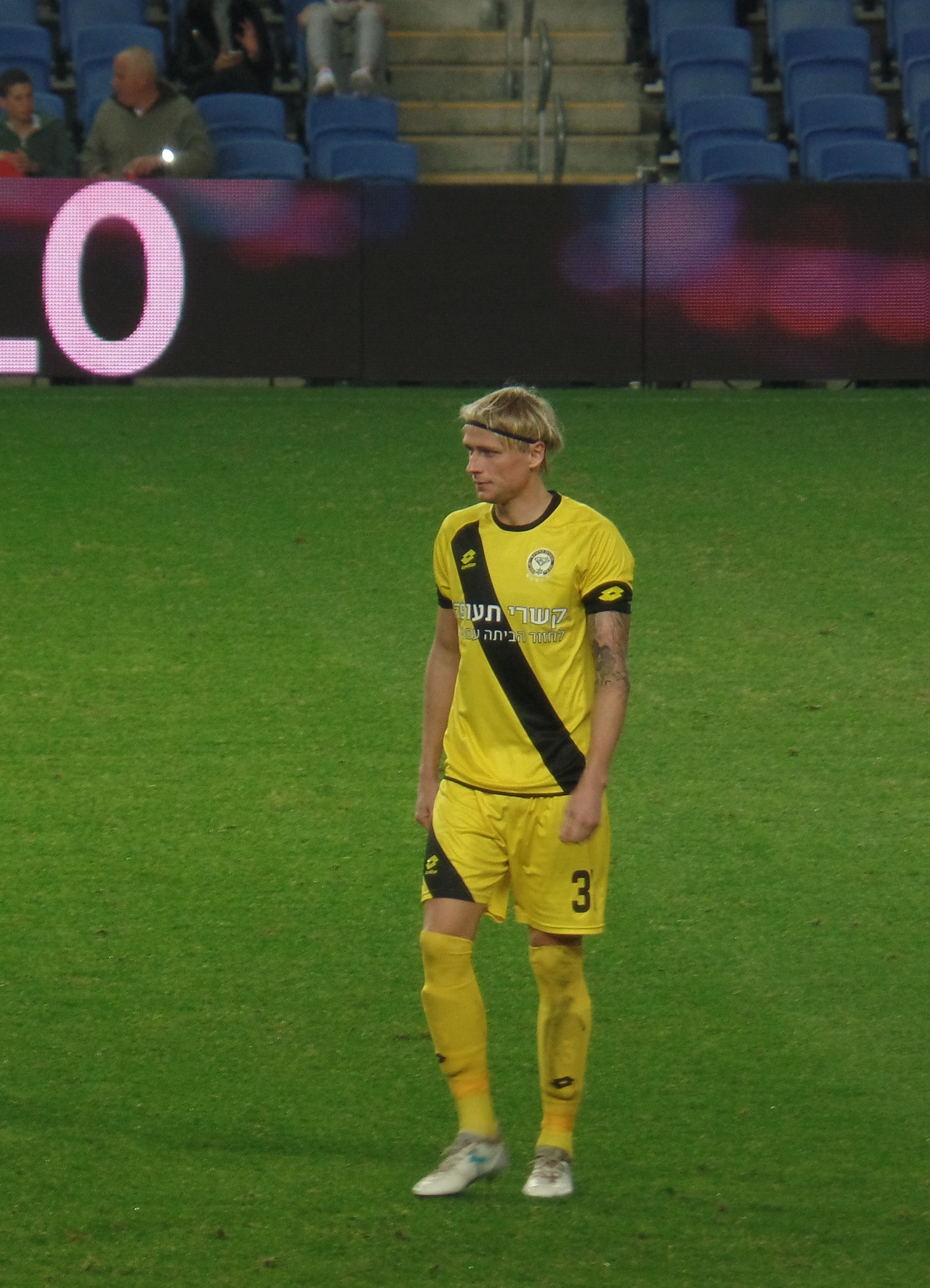 Tim Heubach SAMSUNG CAMERA PICTURES